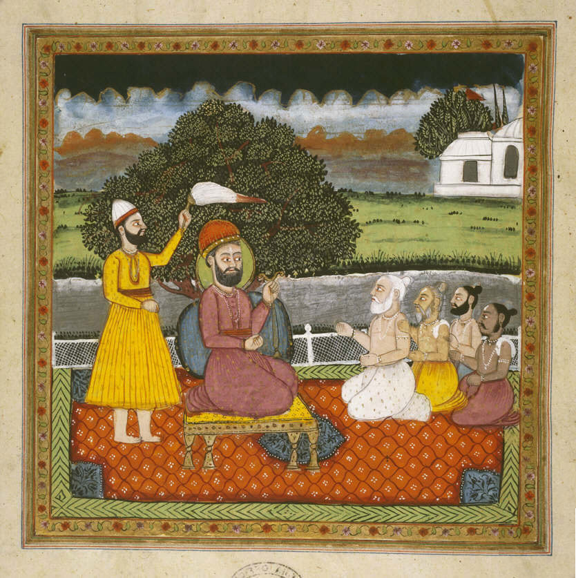 Shows Guru Nanak with Hindu holymen. Regenerated bottom right-hand corner to get rid of the ugly BL stamp.